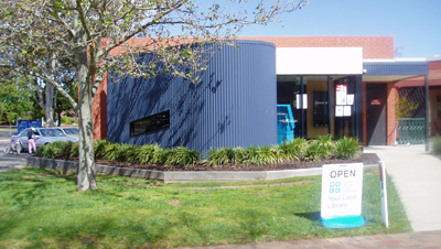 Exterior of the extended St. Arnaud Library